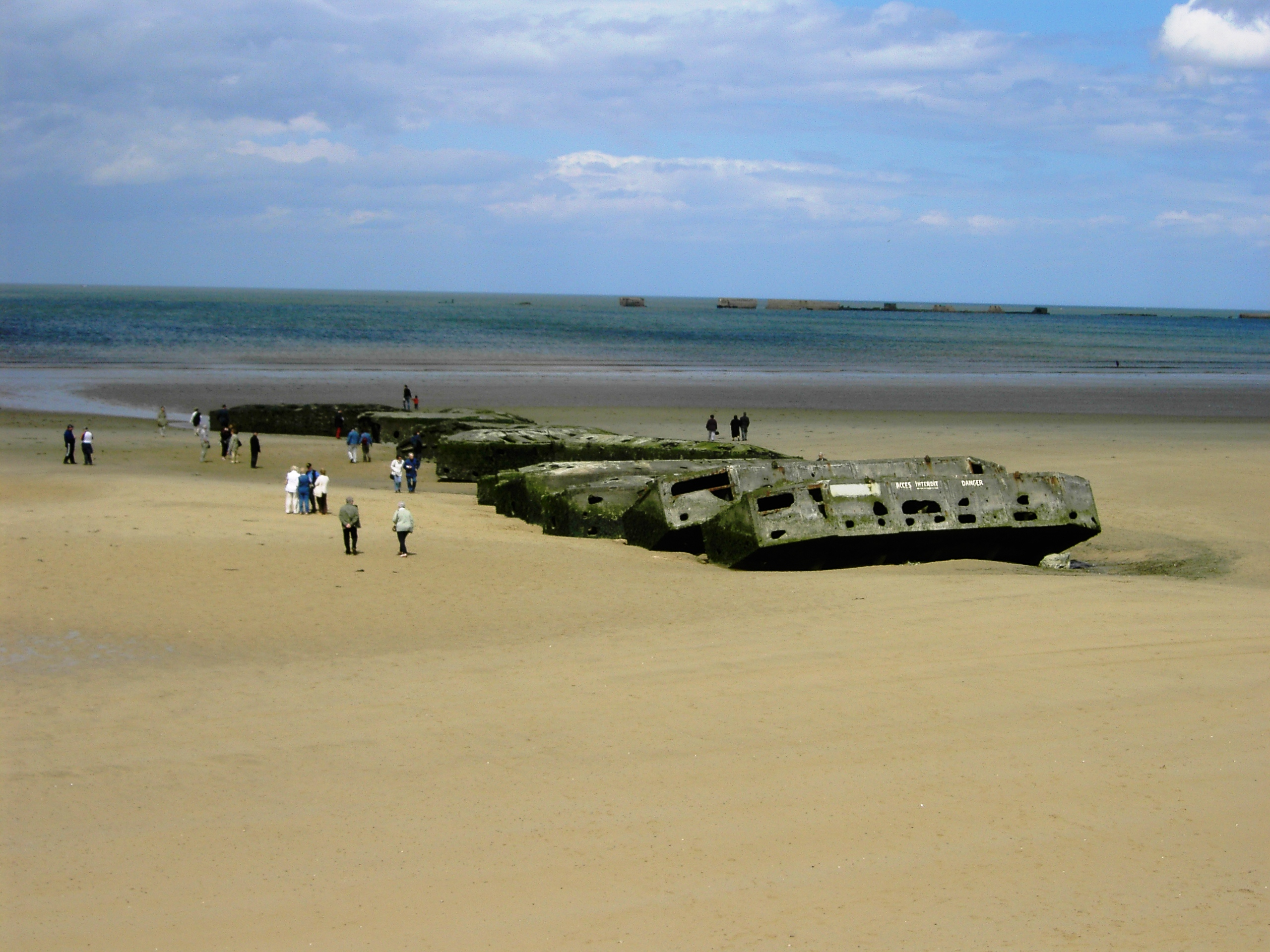 Arromanches, Mulberry Harbour